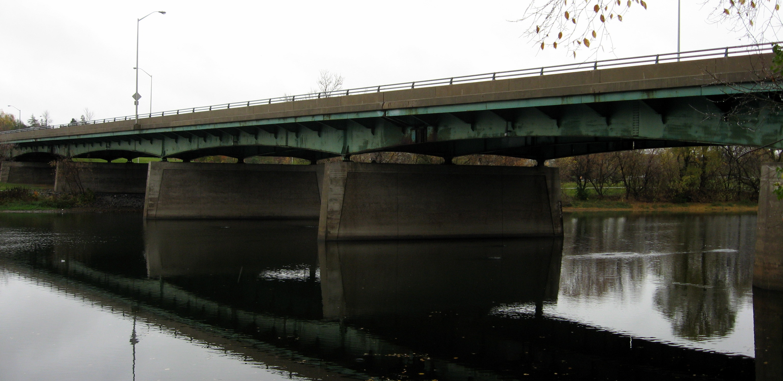 George McIlraith Bridge in Ottawa, Ontario, Canada. See List of bridges in Ottawa